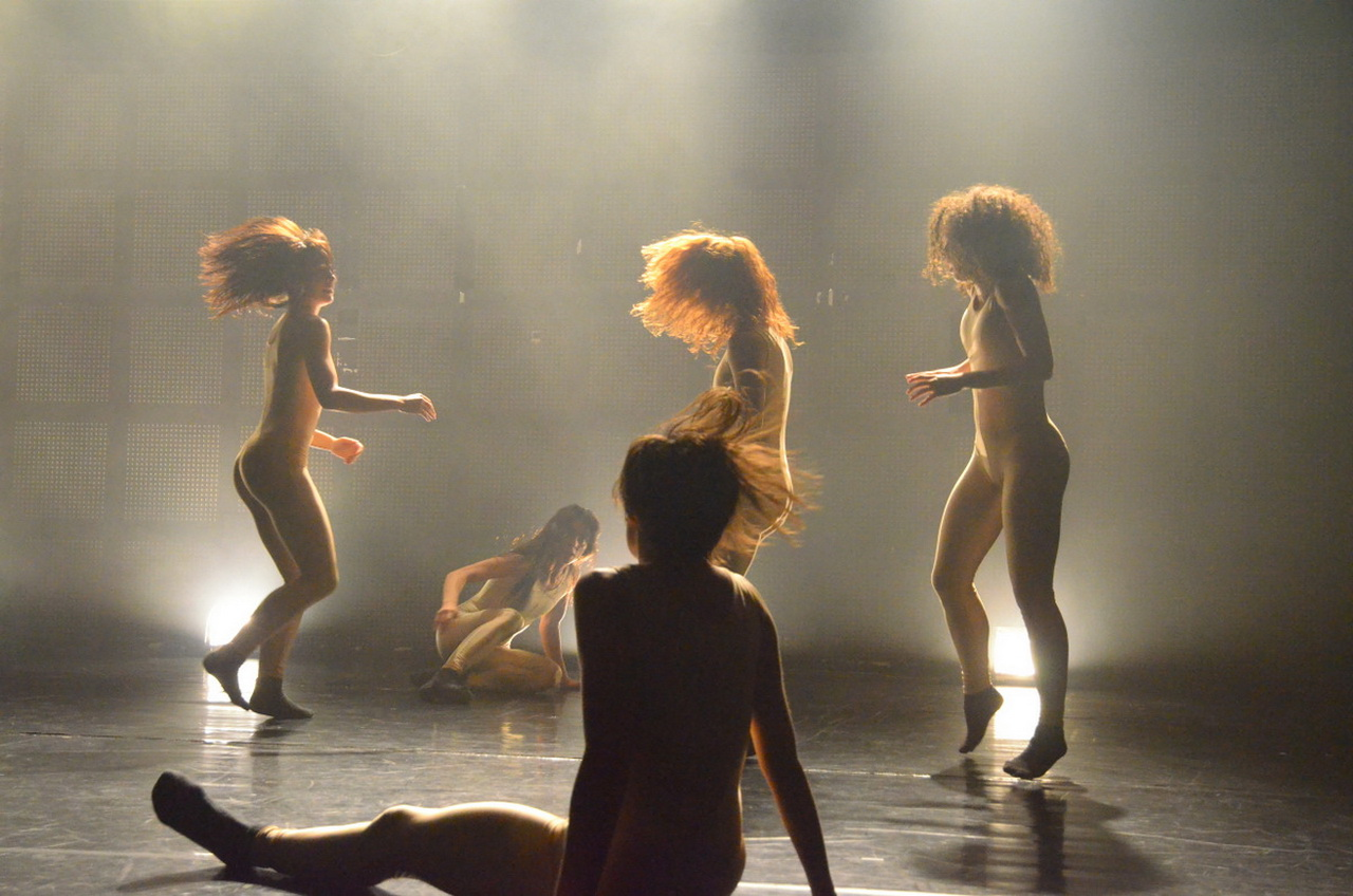 POP IT UP, New Dance Forum, concept and choreography Dragana Bulut, SNT, Novi Sad, 2013/2014 Srpski (latinica): POP IT UP, Forum za novi ples, koncept i koreografija Dragana Bulut, SNP, Novi Sad, 2013/2014. Српски (ћирилица): POP IT UP, Форум за нове плес, концепт и кореографија Драгана Булут, СНП, Нови Сад, 2013/2014.